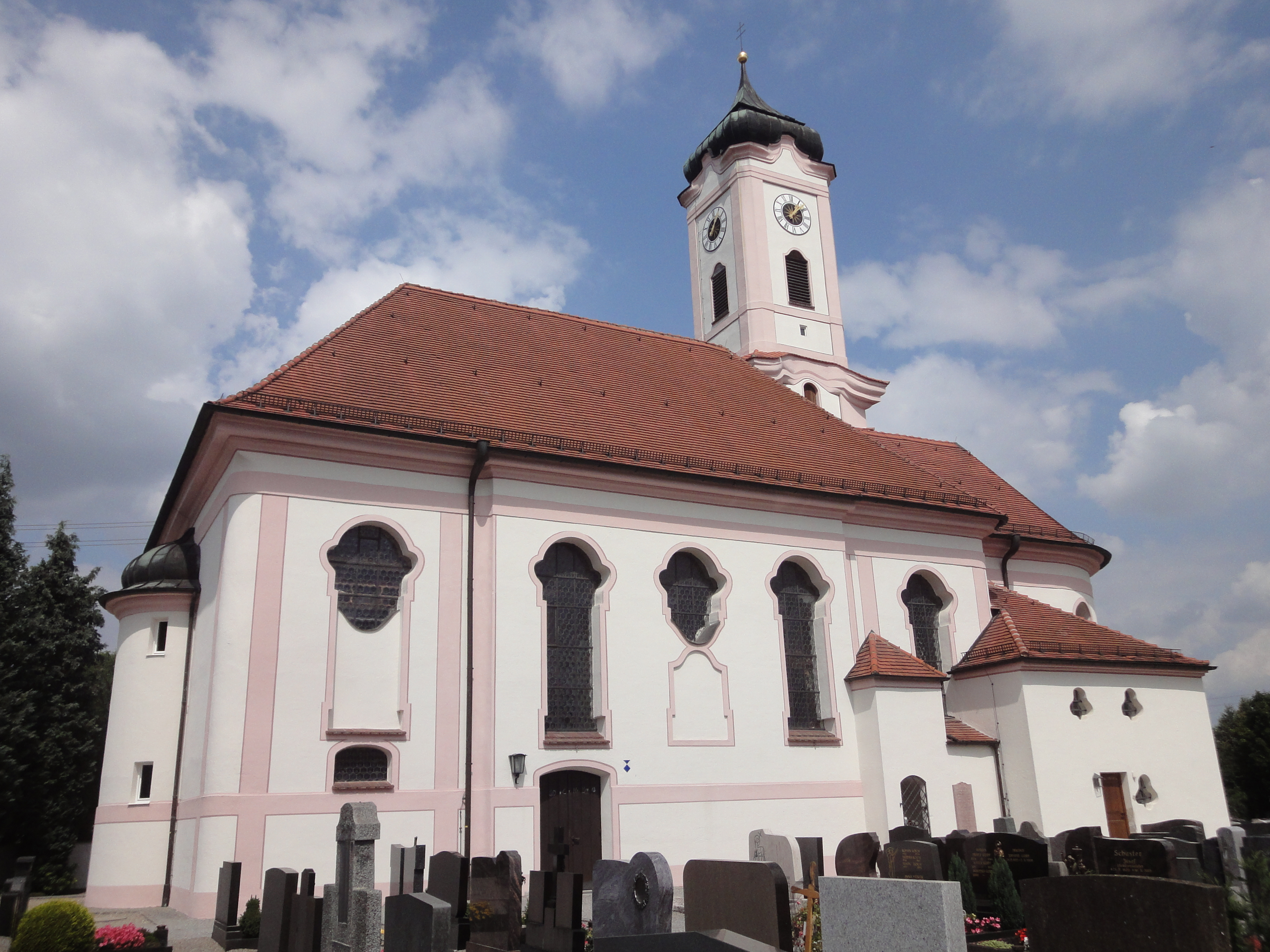 Church in Meitingen-Herbertshofen, Bavaria